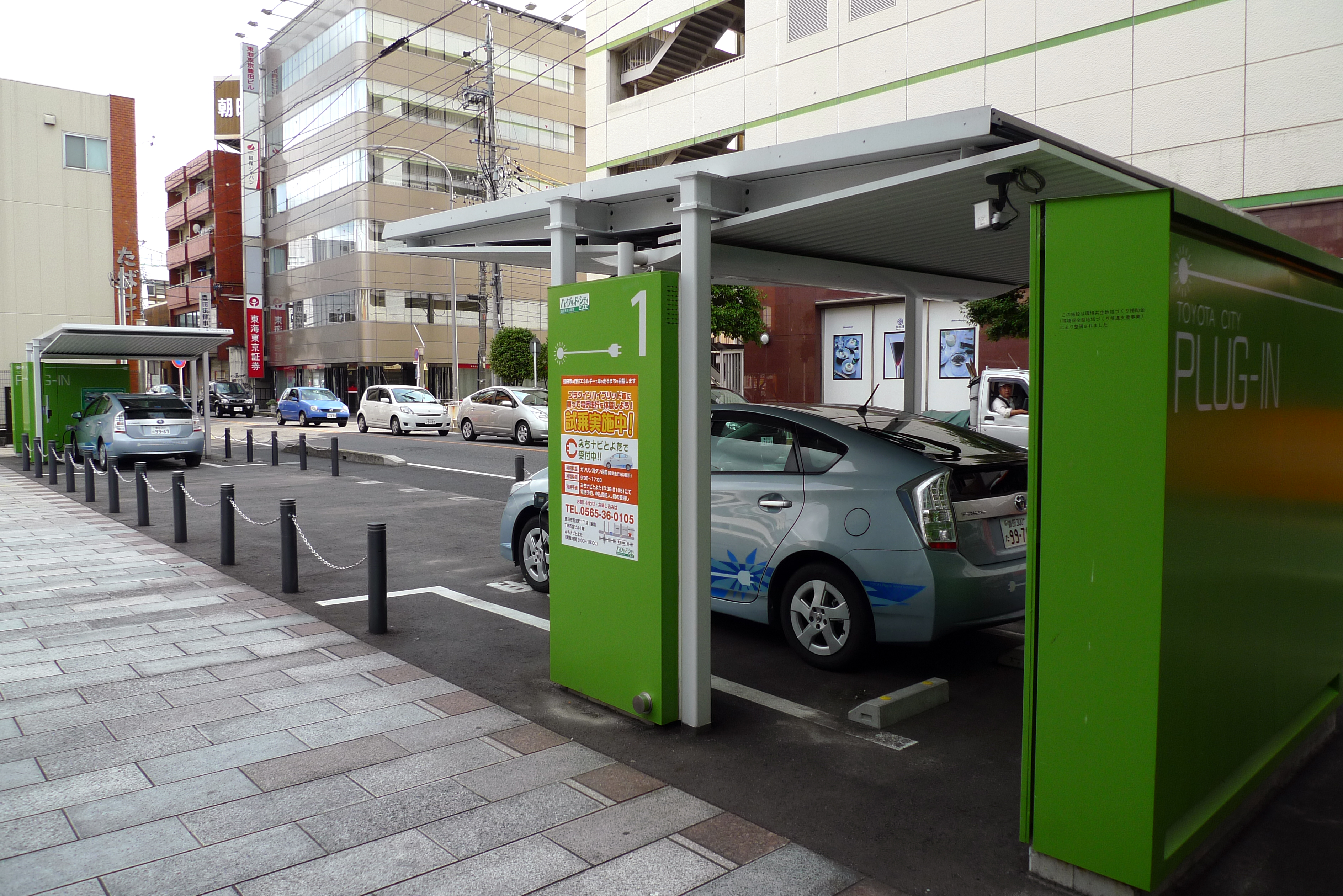 Toyota Prius Plug-in Hybrid demonstration vehicles recharging at a solar-powewered charging station in Toyota city, Aichi, Japan.